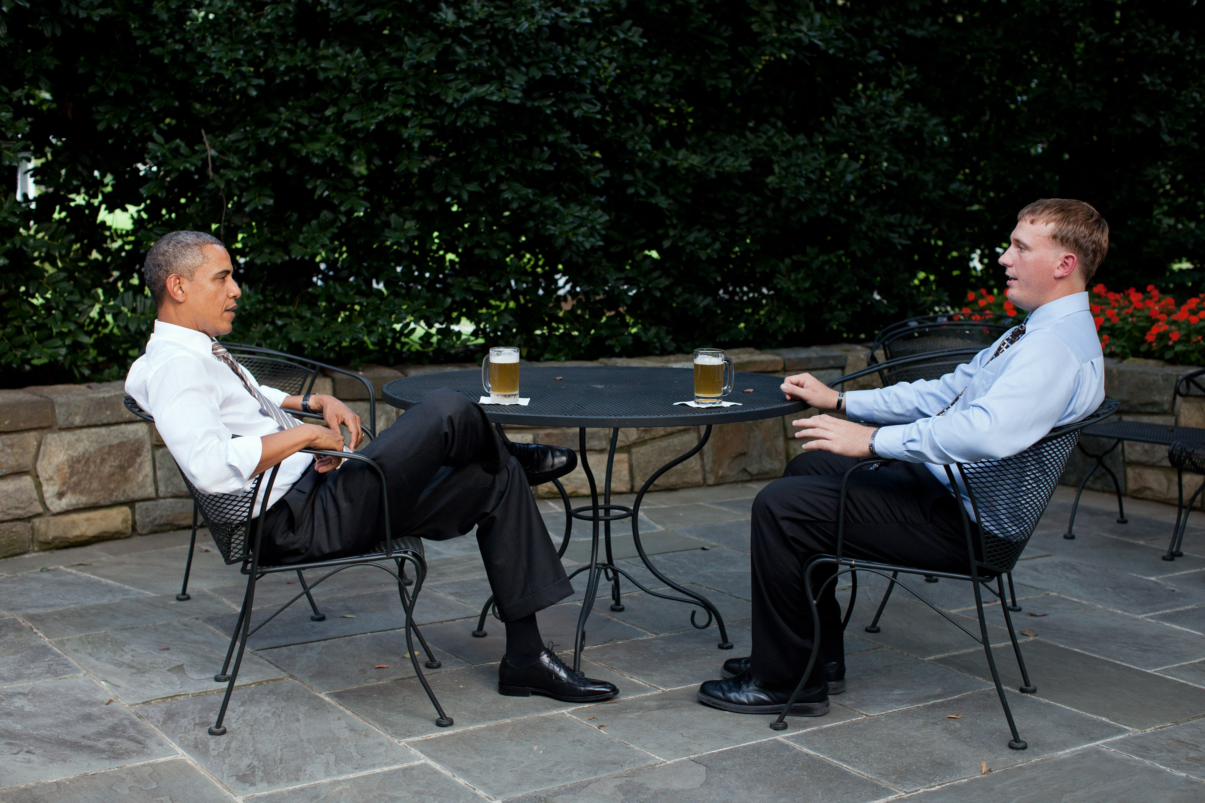 President Barack Obama enjoys a beer with Dakota Meyer on the patio outside of the Oval Office, Sept. 14, 2011. The President will present Meyer with the Medal of Honor tomorrow during a ceremony at the White House. (Official White House Photo by Pete Souza)